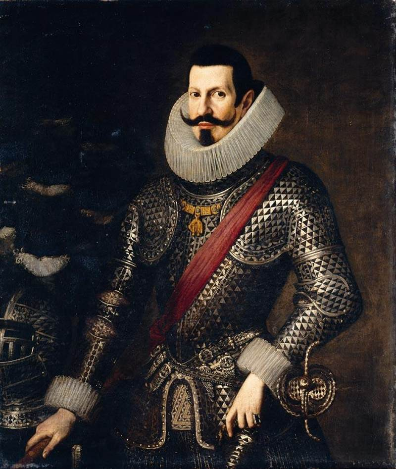 Caption from wga: This portrait is supposed to represent Don Antonio de Moncada y Aragón, V Duque de Montalto who received the collar of the Order of the Golden Fleece on 16 April 1607 from the Viceroy of Naples, the Marqués de Villena. It seems likely that the present portrait was commissioned from González soon afterwards to commemorate the occasion.